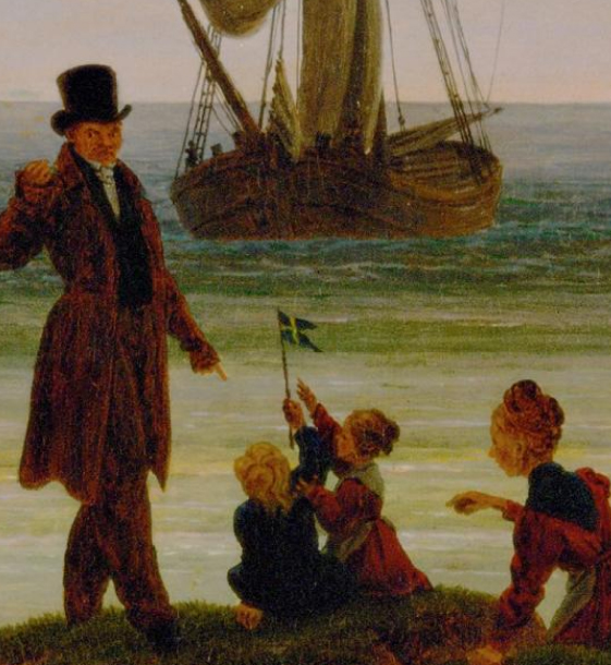 Detail of Die Lebesstufen, by Caspar David Friedrich